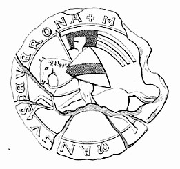 Seal of Herman V, Margrave of Baden; in use 1207-1245